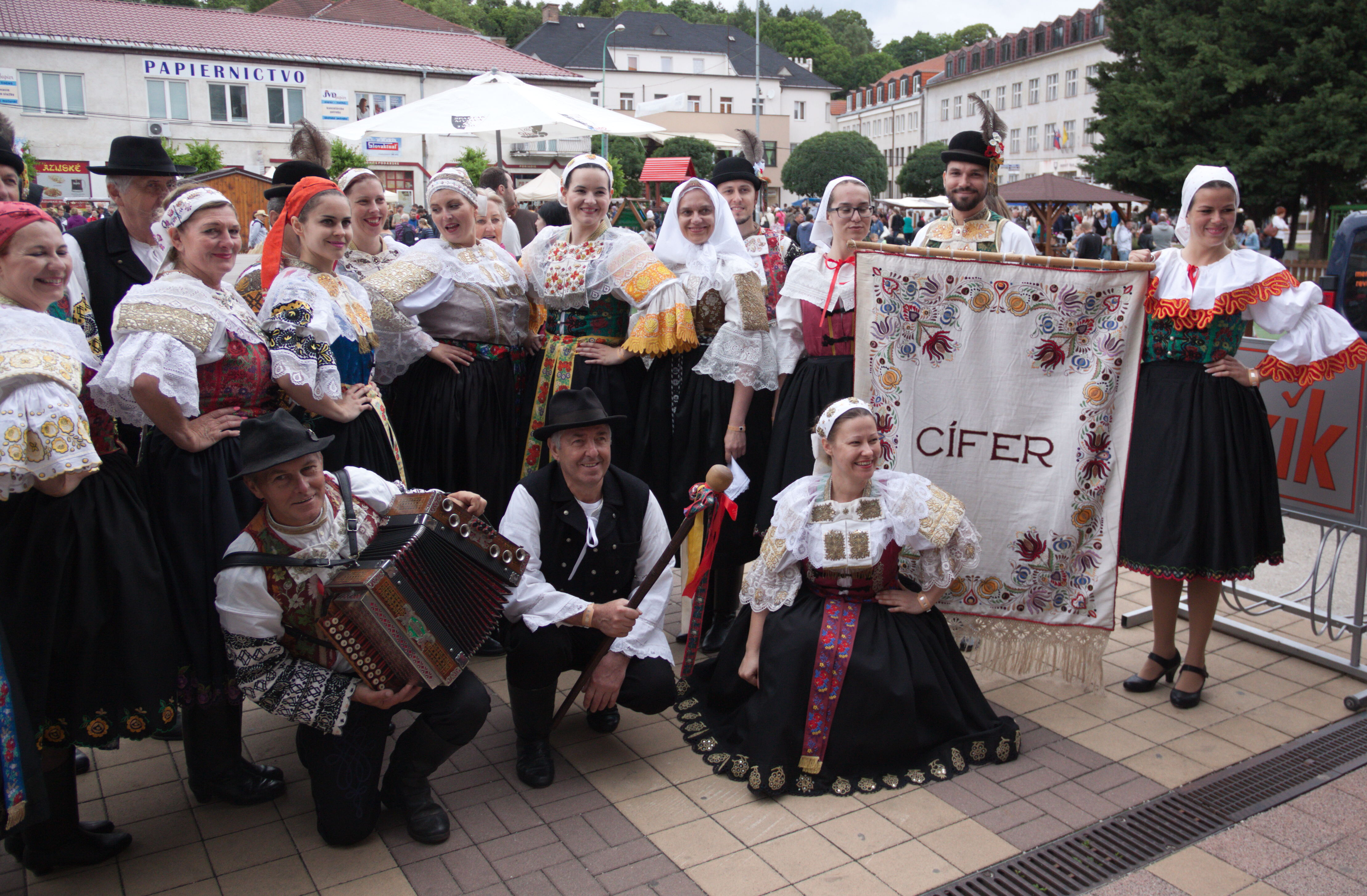 Folk group from Cífer, Slovakia. Carpathian Ethnography Project, Slovakia, third day, Myjava Festival 2017. Photo quality will be improved later.